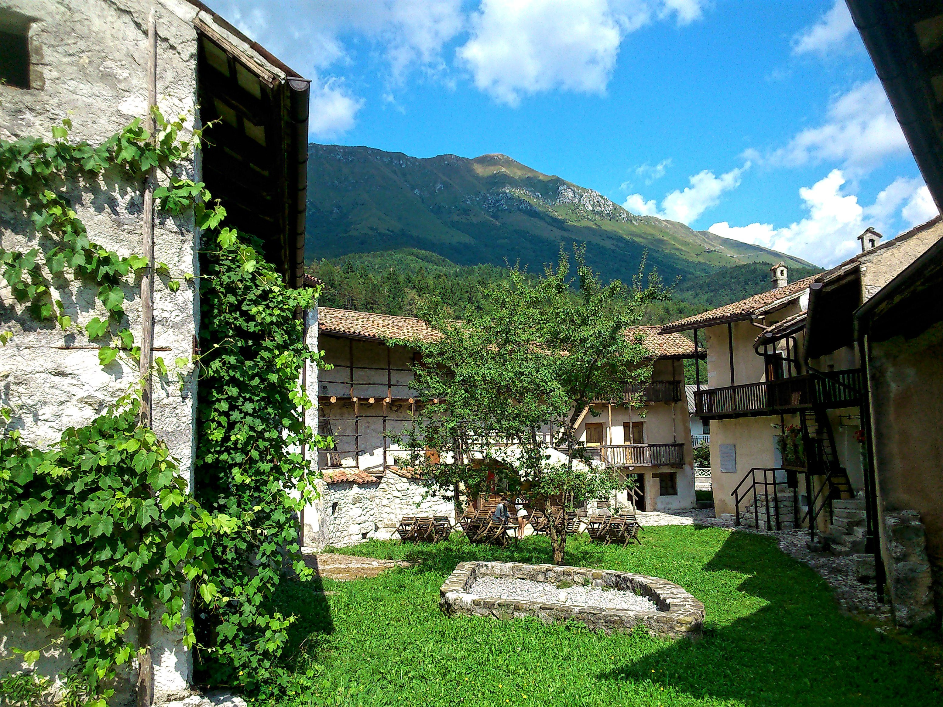 Breginj.